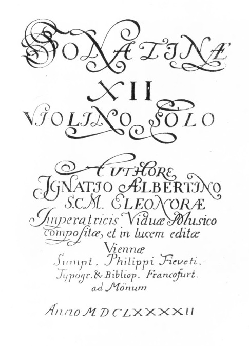 Title page of Sonatinae XII (1692, published posthumously) by Ignazio Albertini (died 1685).